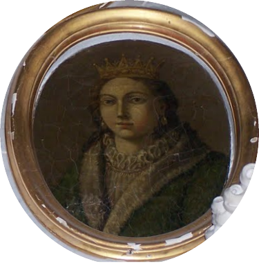 Mausoleum in theSantuario di Montevergine - portrait of Maria, daughter of Catherine of Valois